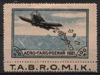 Poland, Michel II; Sanabria 502, mint. 1921 100m blue semi-official issue. Forgery. Stamp issued by the Aero-Targ Company, in agreement with the Polish Ministry of Post & Telegraph. Aero-Targ stamps had to be bought for airmail in addition to the normal express postage rate, payable by usage of regular Polish stamps. The stamp was designed by Wilhelm Rudy (initials W.R. on the stamps) and crudely lithographed. Perforated 11.25 but also known imperforated. This 100 mark value shows a Junkers F-13 plane dropping mail over Poznan. Attached to each stamp was an advertising label, inscribed T.A.B.R.O.M.I.K., for vodka factory TAdeusz BROnislaw MIKolajczyk. The first flights from Poznan to Gdansk and to Warsaw were on 29 May 1921. The first return flight from Warsaw to Poznan was on 31 May 1921. There were daily return flights until June 16 1921. A special winged postmark was used from May 29 to June 16 1921 at the Poznan Fair Flights. Postmarks with dates after June 16 1921 are fake.